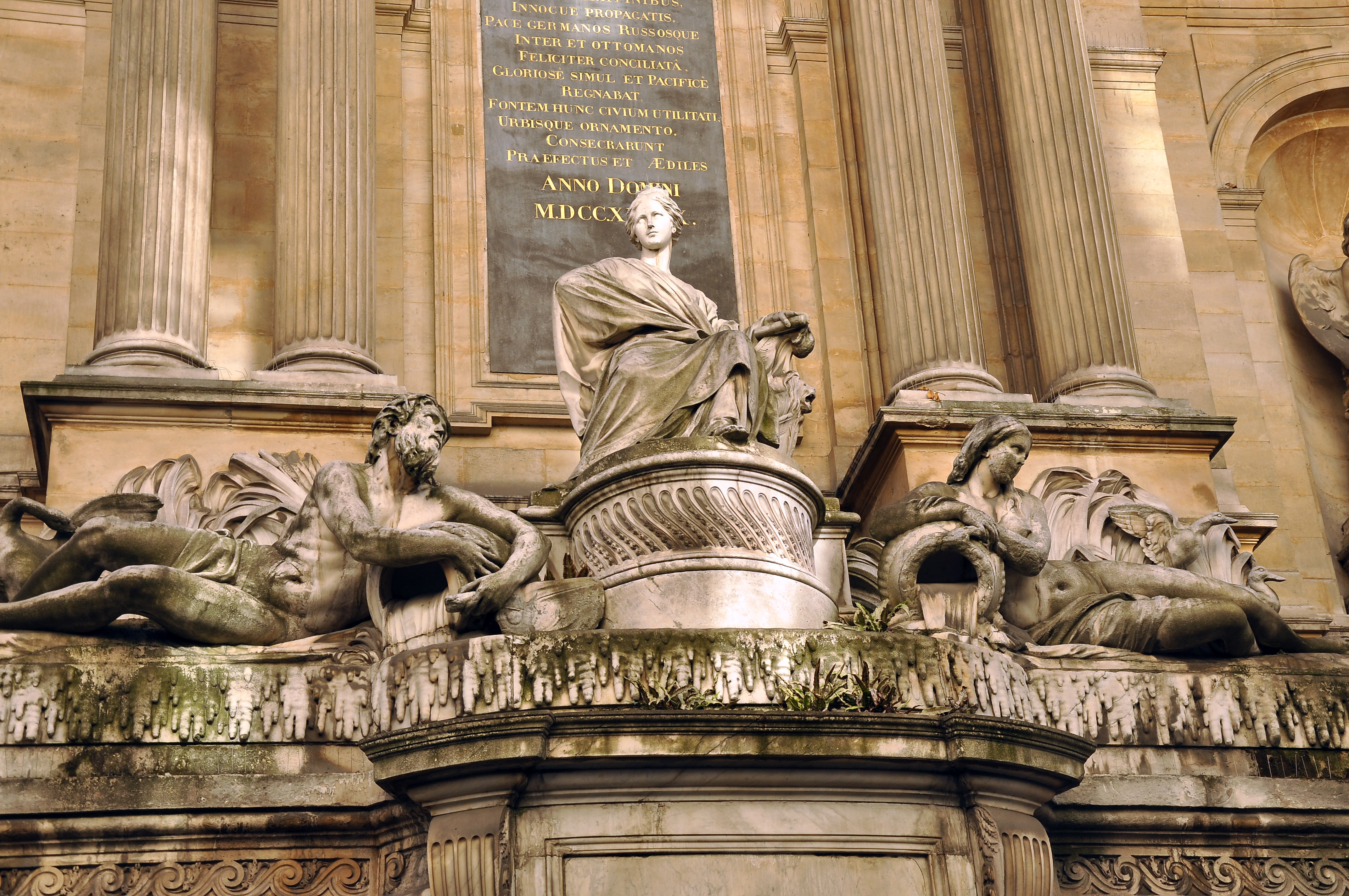 Detail of Fontaine des Quatre-Saisons sculpted by Edmé Bouchardon, rue de Grenelle, Paris, France .